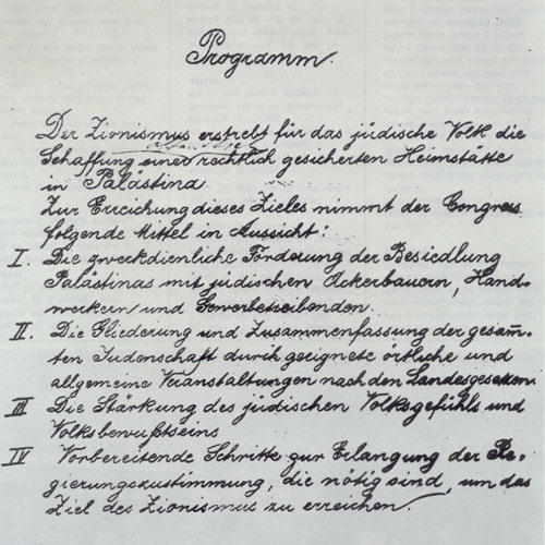 The "Basel Program" at the First Zionist Congress in 1897The source text on the document is as follows:German:Programm Der Zionismus erstrebt für das jüdische Volk die Schaffung einer (öffentlich-)rechtlich gesicherten Heimstätte in Palästina.Zur Erreichung dieses Ziels nimmt der Congress folgende Mittel in Aussicht: I. Die zweckdienliche Förderung der Besiedlung Palästinas mit jüdischen Ackerbauern, Handwerkern und Gewerbetreibenden. II. Die Gliederung und Zusammenfassung der gesammten Judenschaft durch geeignete örtliche und allgemeine Veranstaltungen nach den Landesgesetzen. III. Die Stärkung des jüdischen Volksgefühls und Volksbewusstseins. IV. Vorbereitende Schritte zur Erlangung der Regierungszustimmung, die nötig sind, um das Ziel des Zionismus zu erreichen. One English translation follows